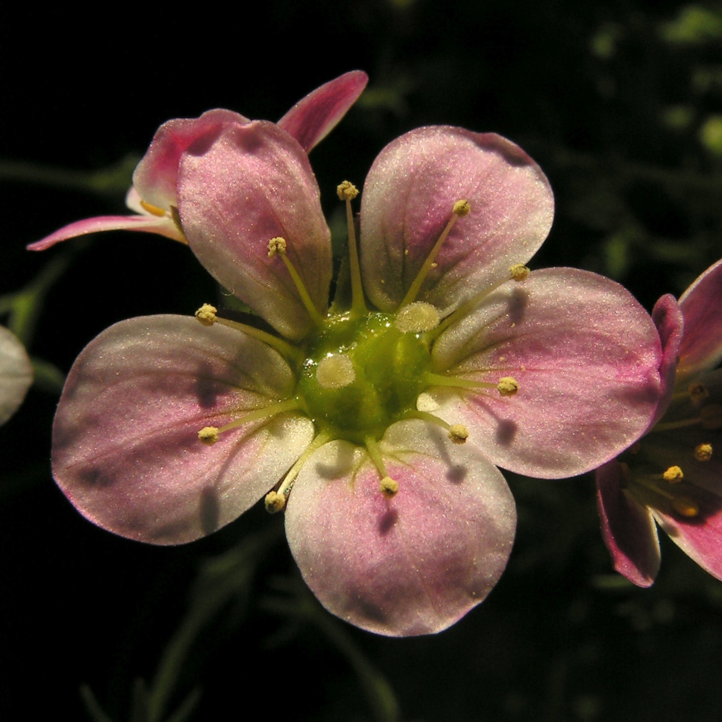 Flower of Mossy Saxifrage. Diameter of the flower is appr. 20 mm.